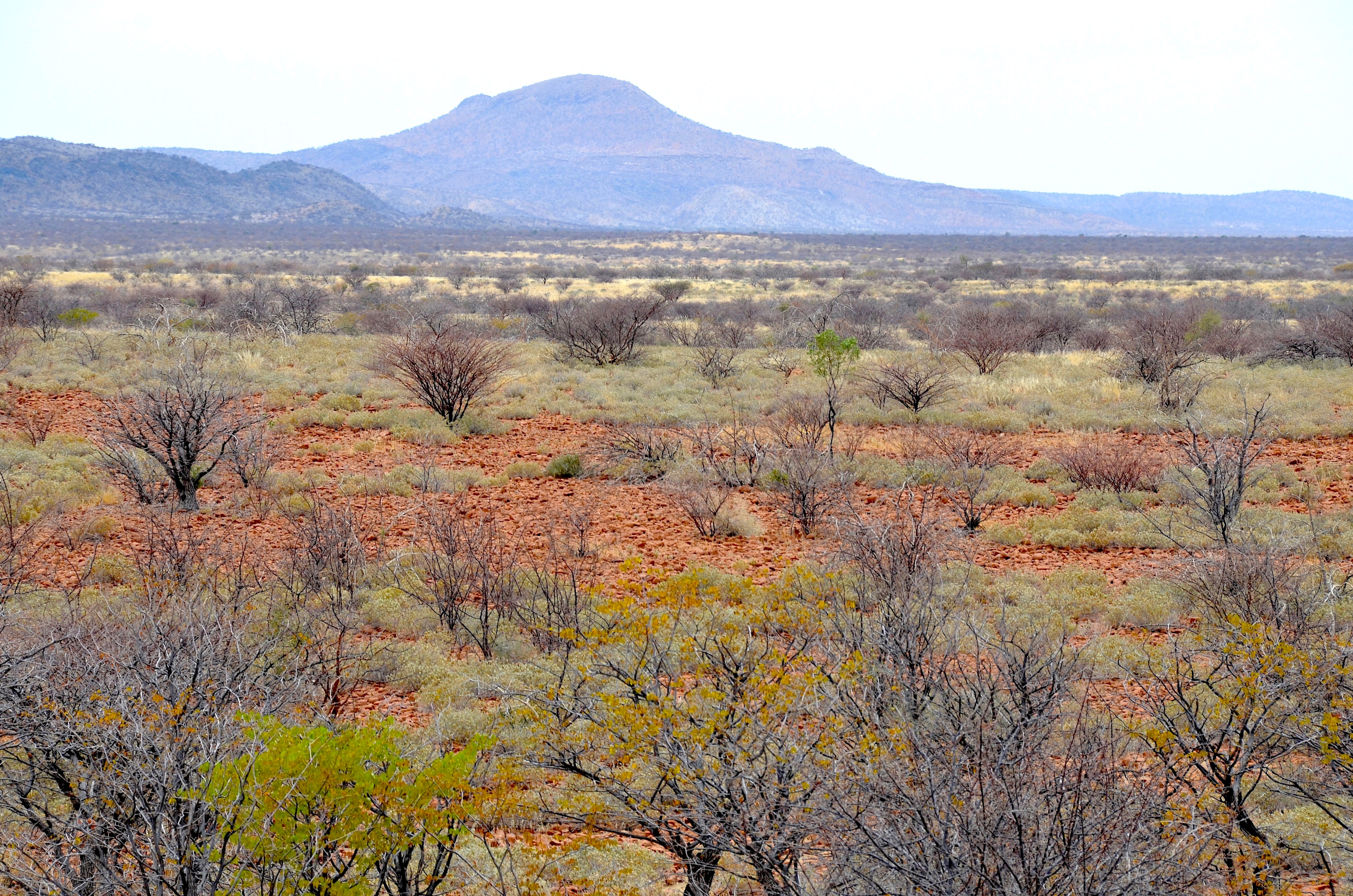 Typical Veld Landscape near Petrified forest in Namibia (2014)